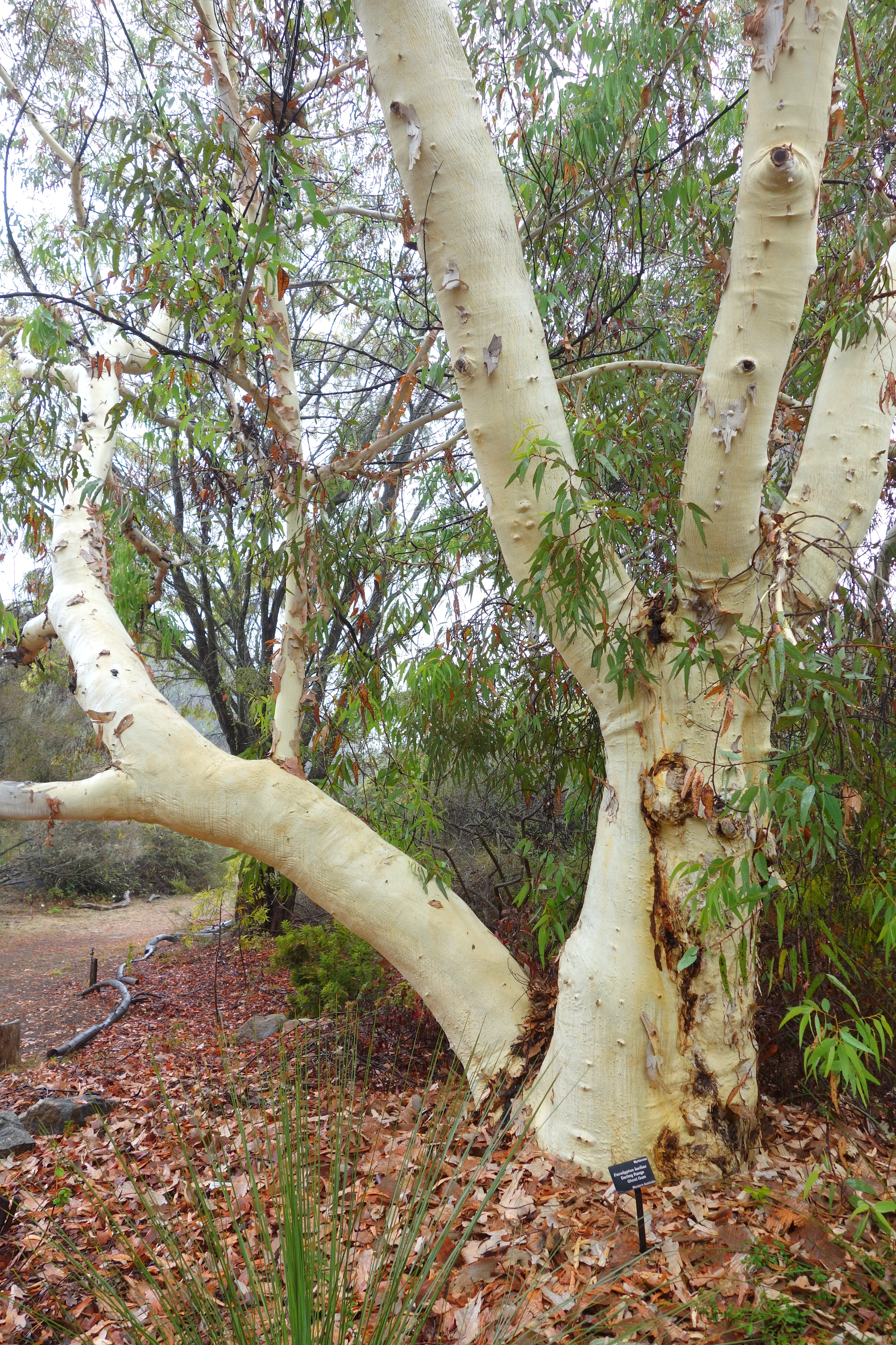 Botanical specimen in the UC Santa Cruz Arboretum at the University of California, Santa Cruz - 1156 High Street, Santa Cruz, California, USA.